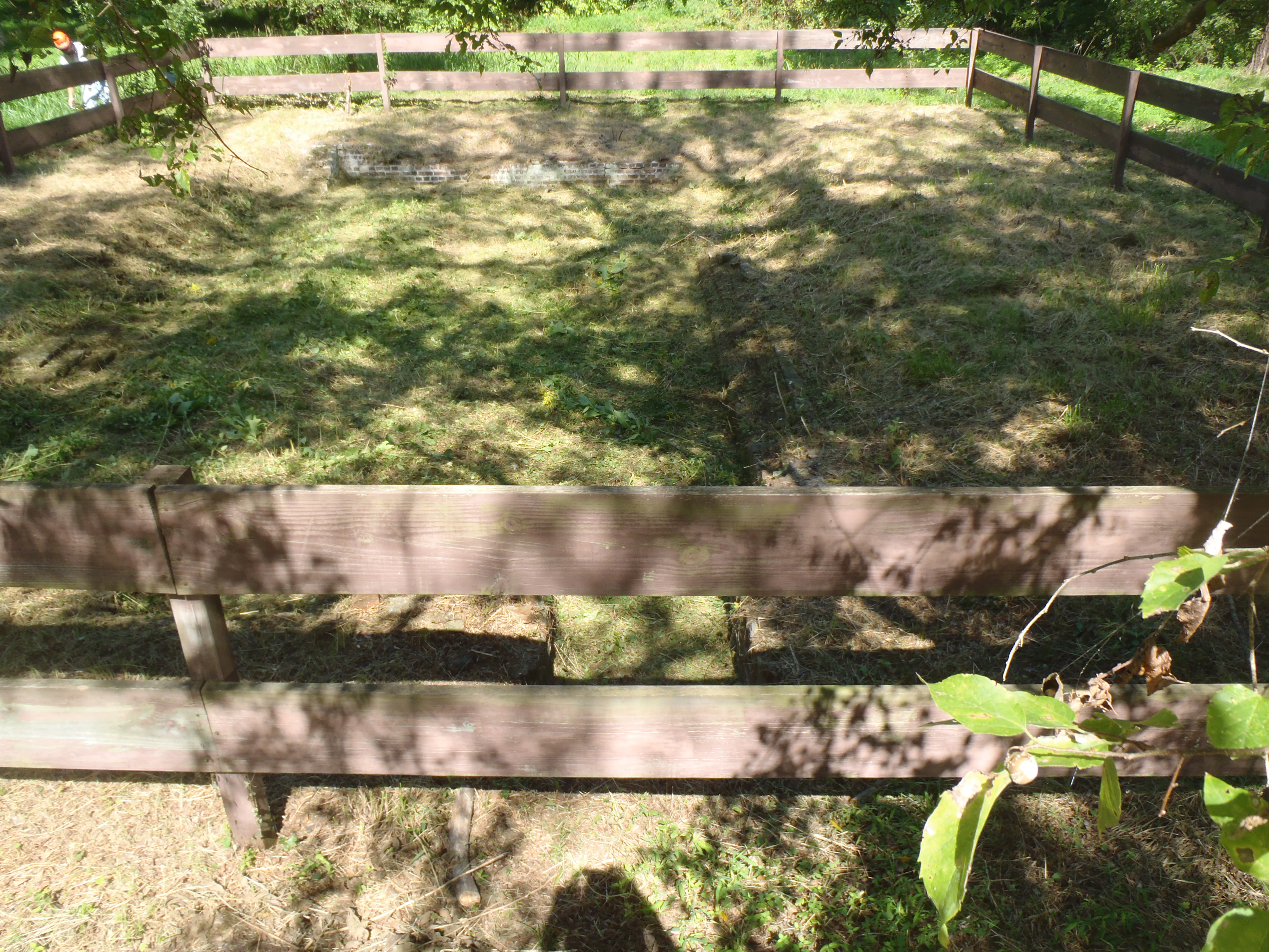 Foundation of the Crafford house surrounded by a fence.